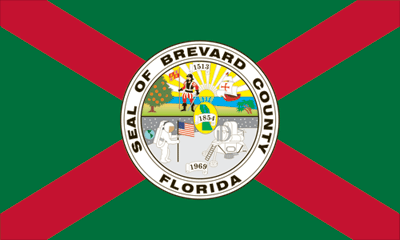 The official flag of Brevard County, Florida.